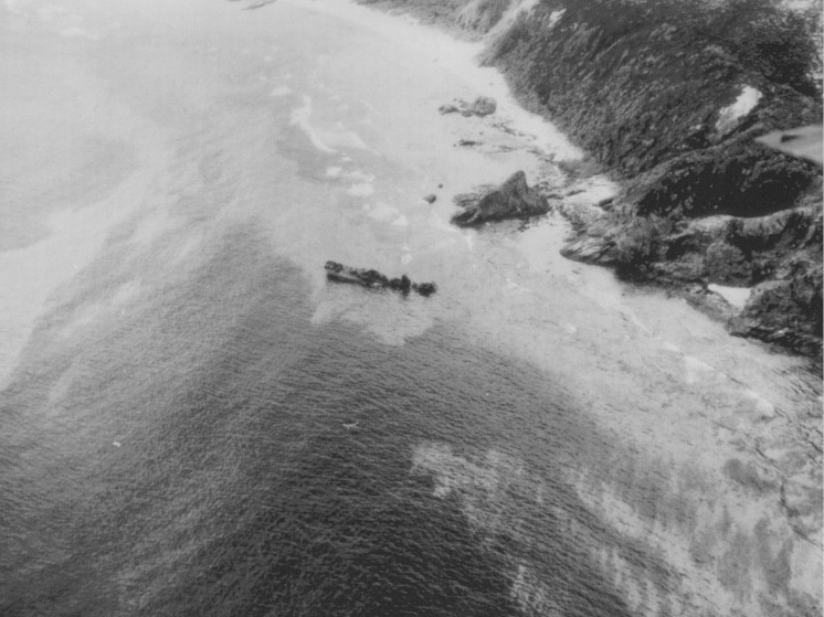 The U.S. Navy destroyer USS Halligan (DD-584) aground on Tokashiki island. Halligan had been assigned to a fire support unit off the southwestern part of Okinawa on 25 March 1945 and began patrolling between Okinawa and Kerama Retto. In addition she covered minesweepers during sweep operations through waters which had been heavily mined with irregular patterns. Halligan continued her offshore patrols 26 March. At about 1835 a tremendous explosion rocked the ship, sending smoke and debris 60 m in the air. The destroyer had hit a moored mine head on, exploding the forward magazines and blowing off the forward section of the ship, including the bridge, back to the forward stack. The ship was abandoned, having lost one-half her crew of 300; only 2 of her 21 officers survived. The abandoned destroyer drifted aground on Tokashiki, a small island west of Okinawa, the following day. There the hulk was further battered by pounding surf and enemy shore batteries.